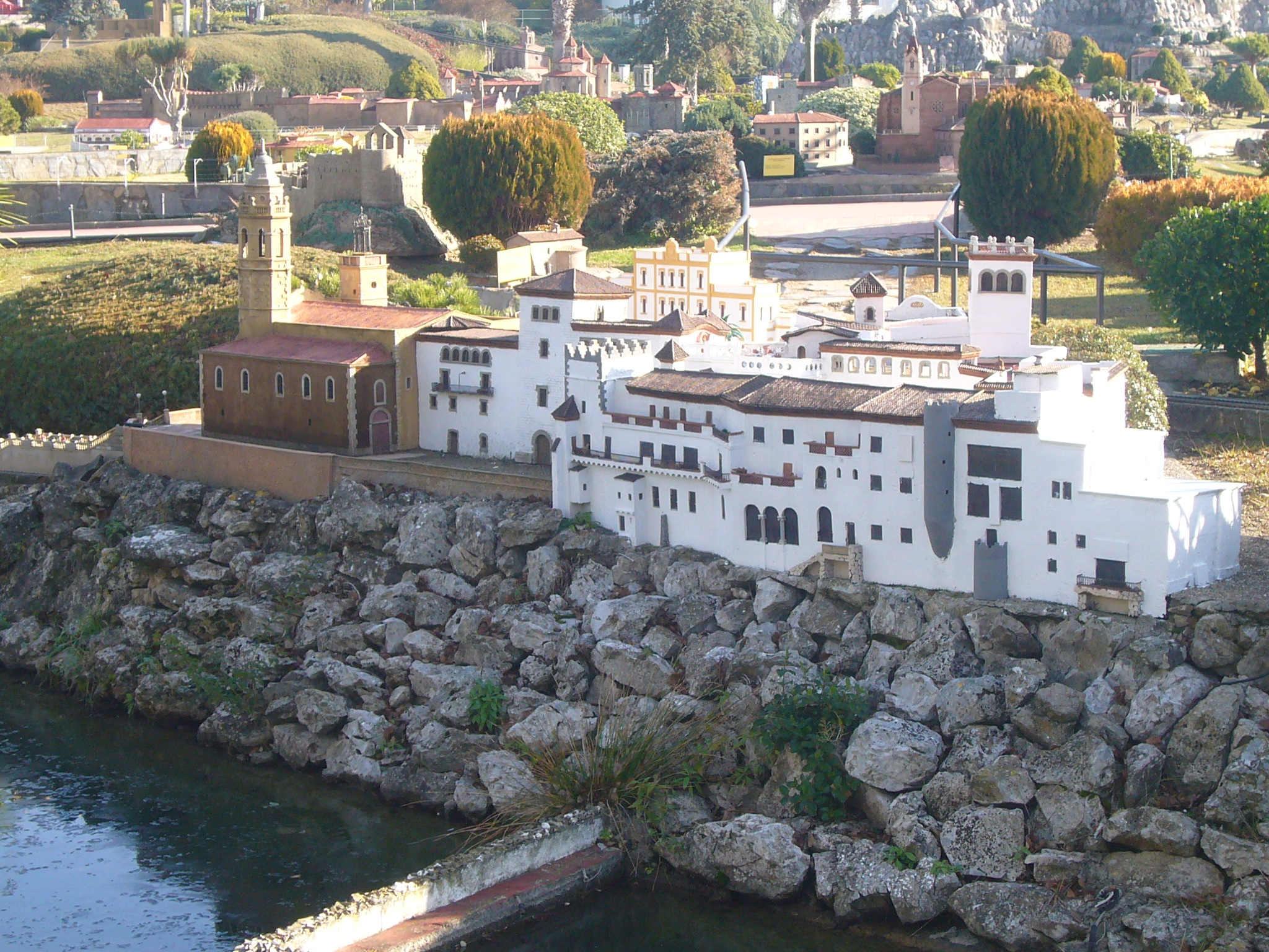 Scale model at the "Catalunya en Miniatura" miniature park : Sitges seafront